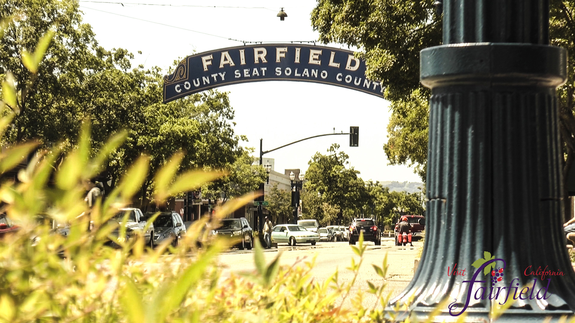 We are Fairfield, CA